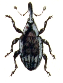 Grypus equiseti, from Calwer's Käferbuch, Table 33, Picture 3. Taxonomy was updated to 2008, using mostly the sites Fauna Europaea and BioLib. Please contact Sarefo if the determination is wrong!